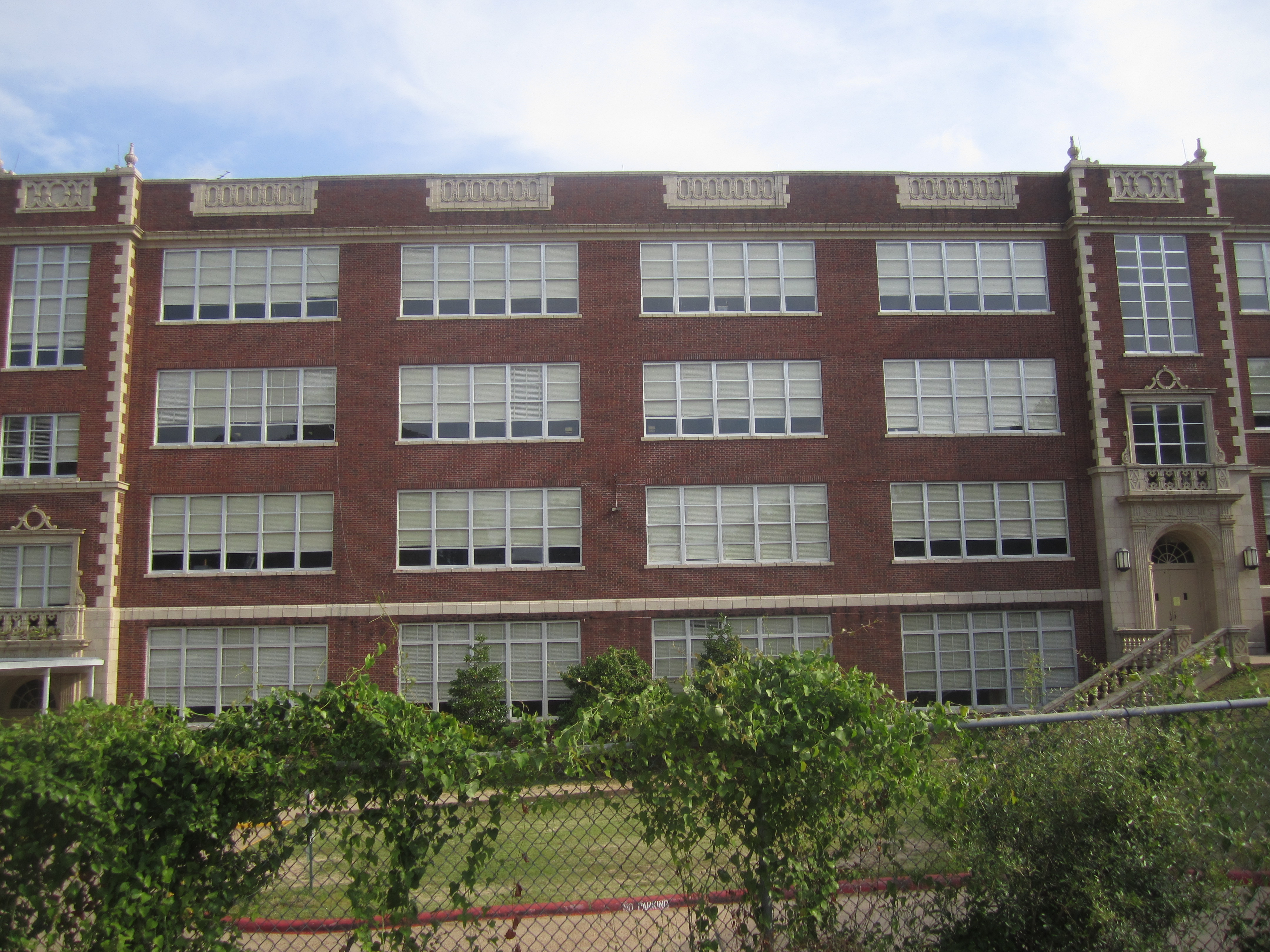 I took photo of C.E. Byrd High School in Shreveport, LA, with Canon camera.